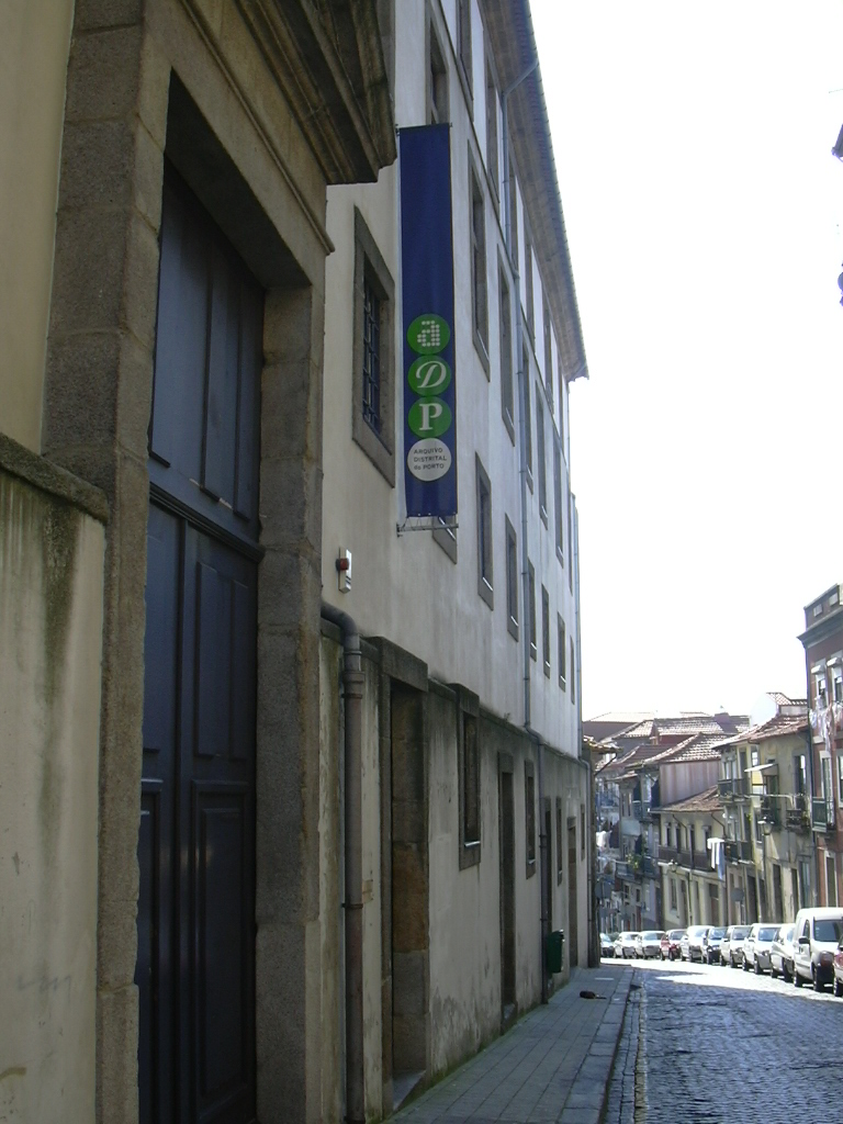 Porto District Archives.